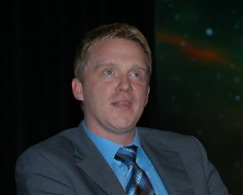 Actor Anthony Michael Hall at Creation Grand Slam XII, Pasadena Convention Center (resized image)